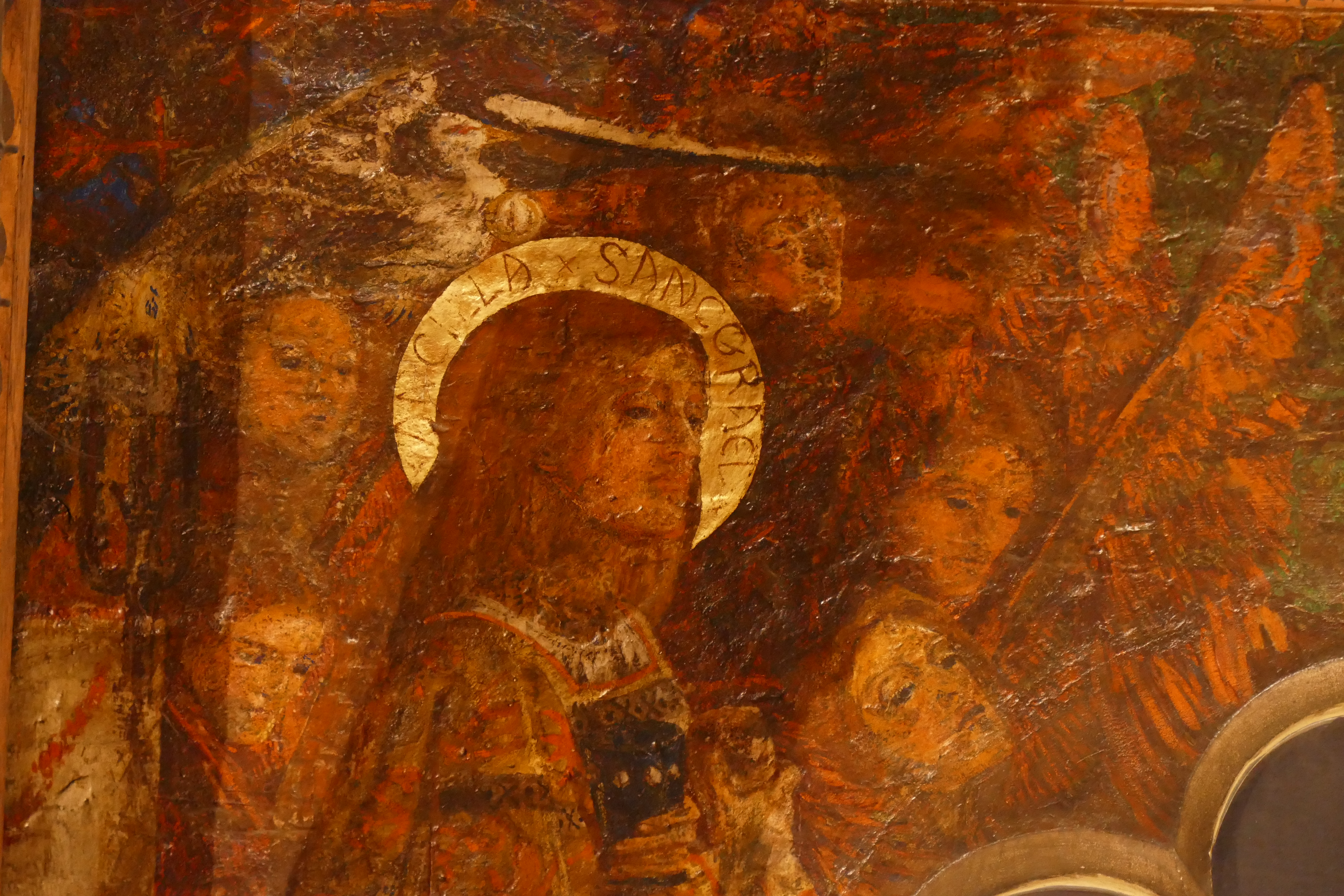 Jane Burden as depicted in Rossetti's mural in the Oxford Union Library.